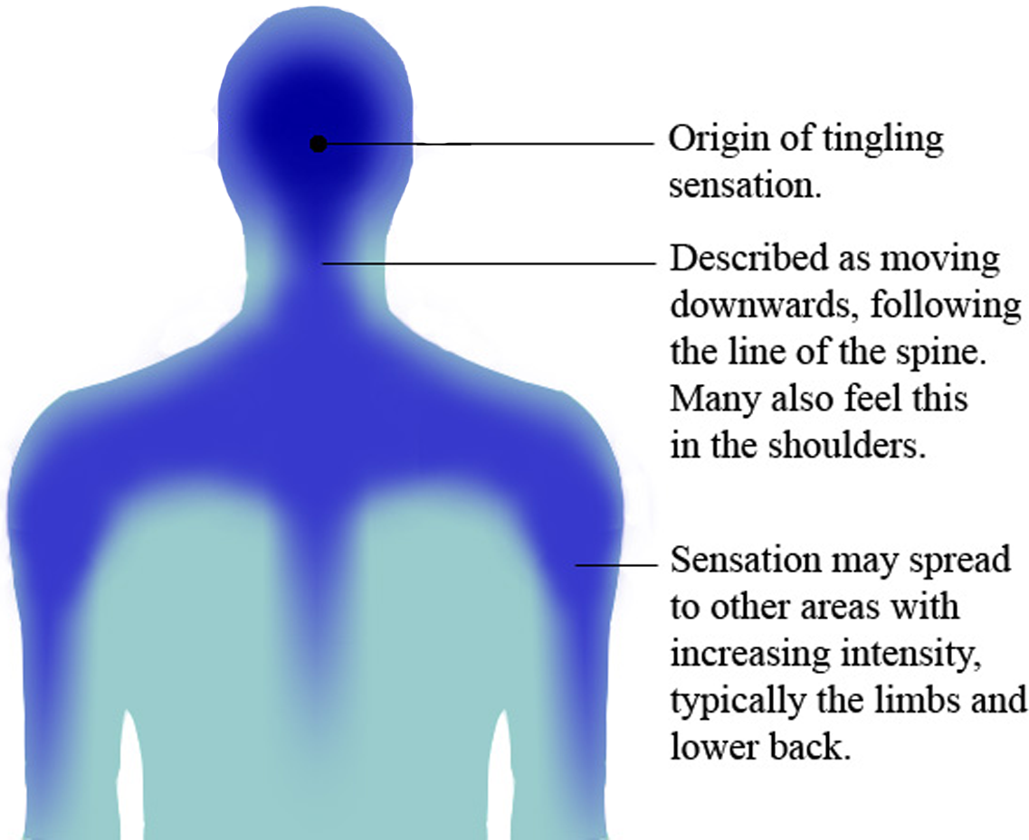 An illustration of the route of ASMR’s tingling sensation. Image shows rear view of the head and upper torso. Capable individuals typically experience the sensation as originating at the back of the head, spreading across the scalp and down the back of the neck. Half of participants reported that this sensation typically spreads to the shoulders and back with increasing intensity. Though this diagram represents the most common areas involved in the tingling sensation, there is a huge amount of individual variation in where tingles spread to with increased intensity, with legs and arms also commonly reported as hotspots in some individuals.